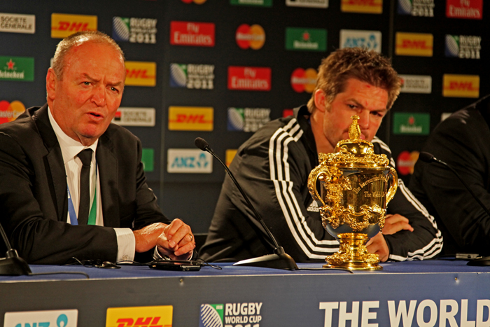 Graham Henry and Richie McCaw, respectively head coach and captain of New Zealand rugby union team, during the press conference that followed the win of the 2011 Rugby World Cup